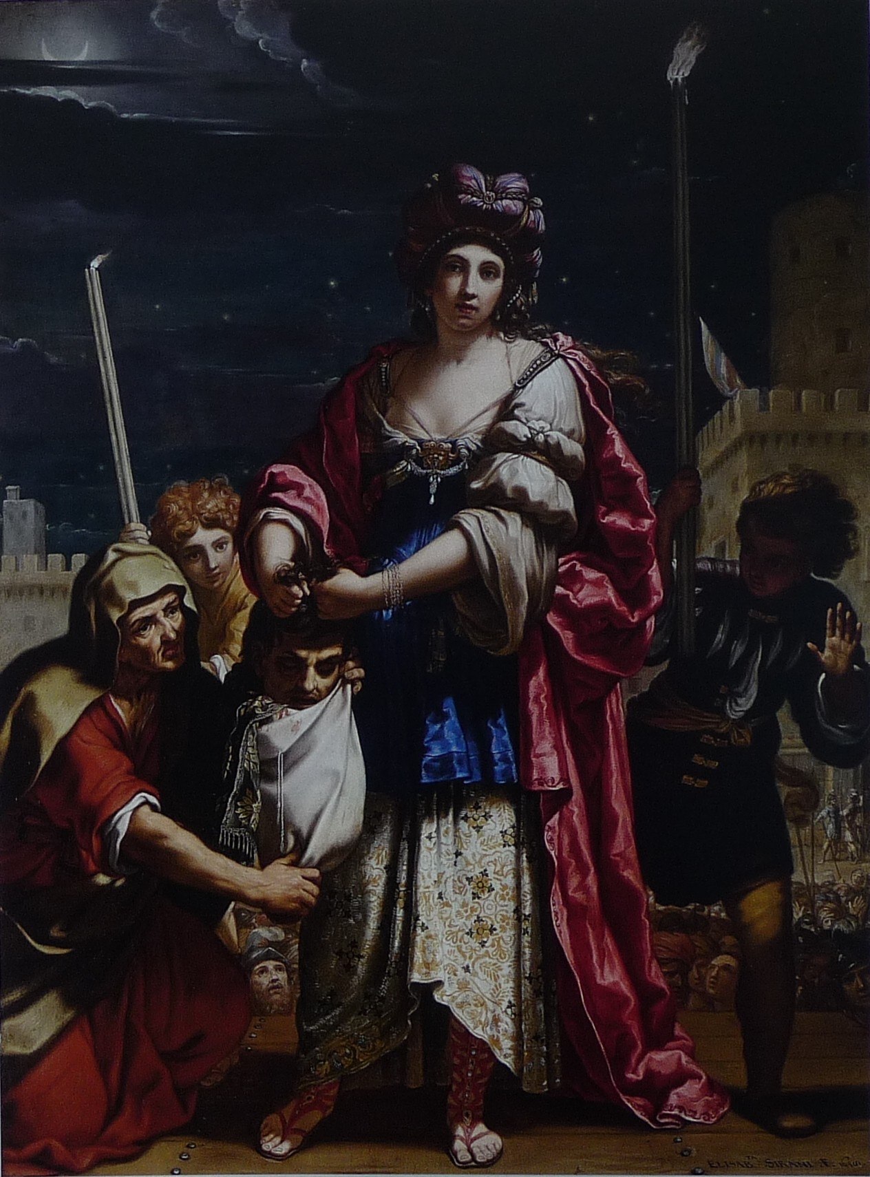 Judith with the head of Holofernes